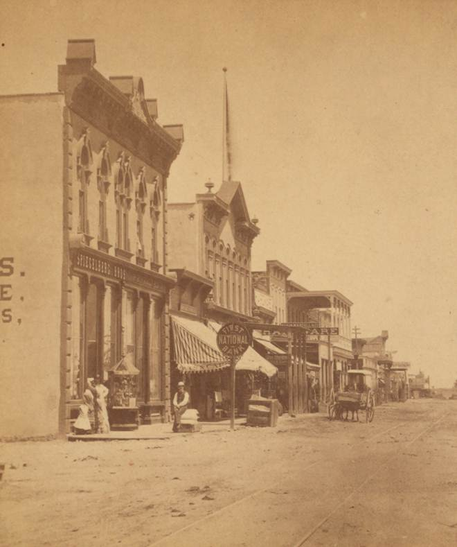 A photograph of Albuquerque, New Mexico in 1880, from the New York Public Library.